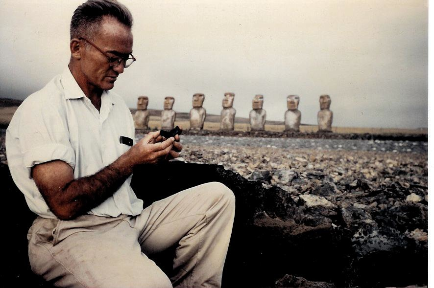 William Mulloy at Ahu Akivi in 1961